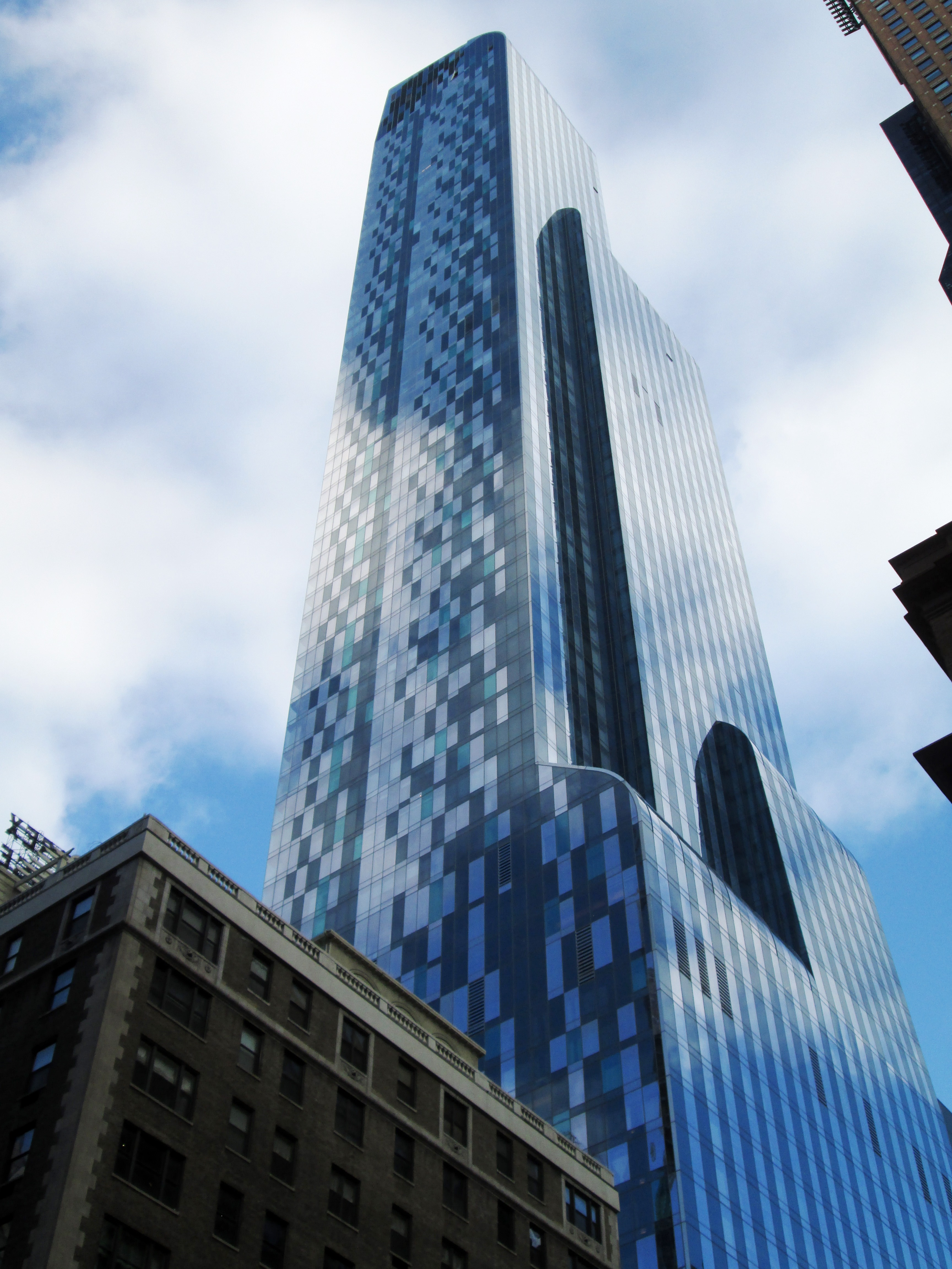 One57, formerly known as Carnegie 57 is a residential skyscraper located at 157 West 57th Street, between Sixth and Seventh Avenues, in the Midtown Manhattan neighborhood of New York City. It was built from 2009-14 and was designed by the French architect Christian de Portzamparc, with interiors by Thomas Juul-Hansen.